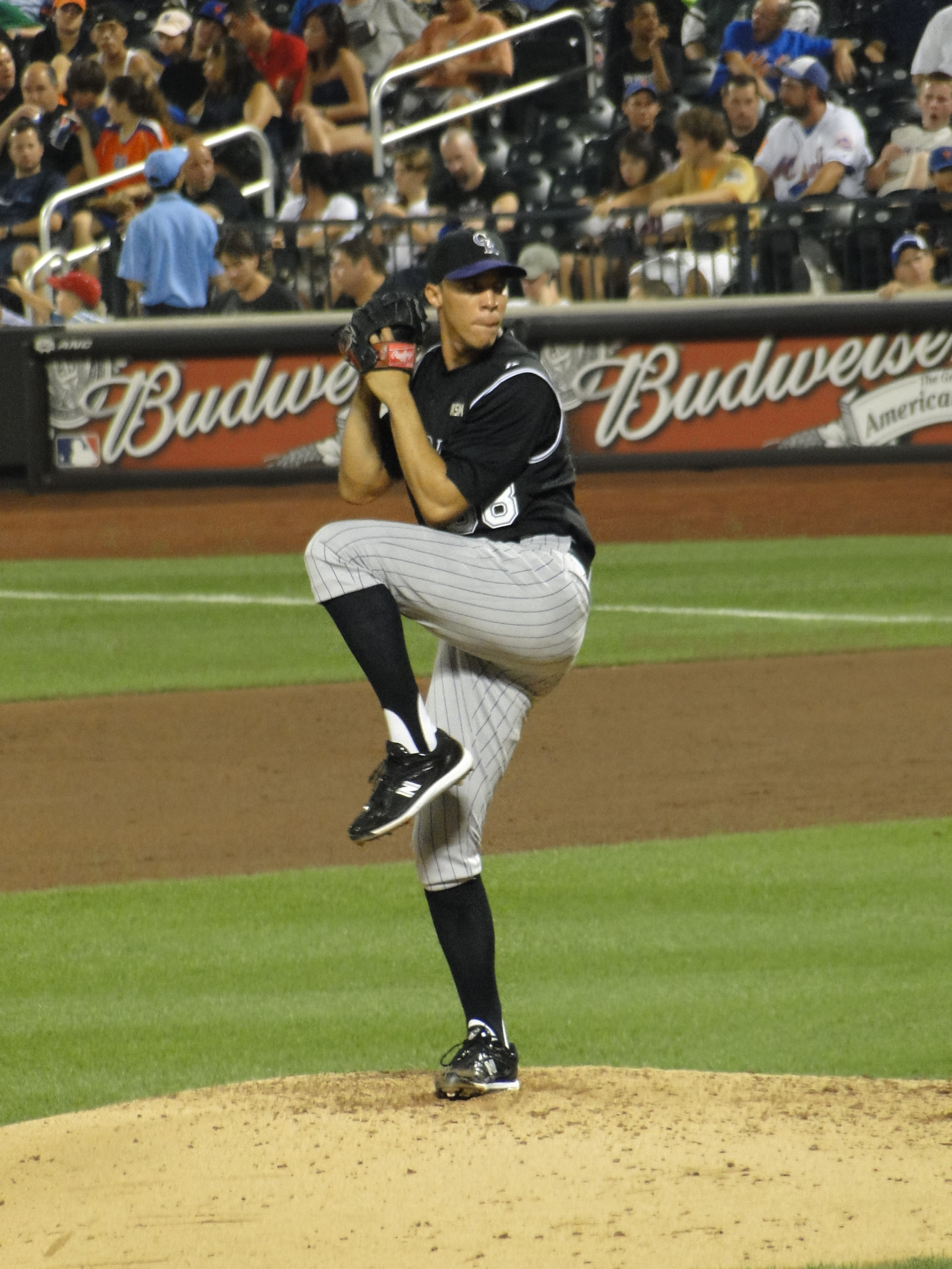 Dominican Major League Baseball player Ubaldo Jiménez.